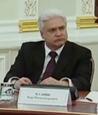 Ihor Kalinin, Ukrainian general, former Head of Security Service of Ukraine